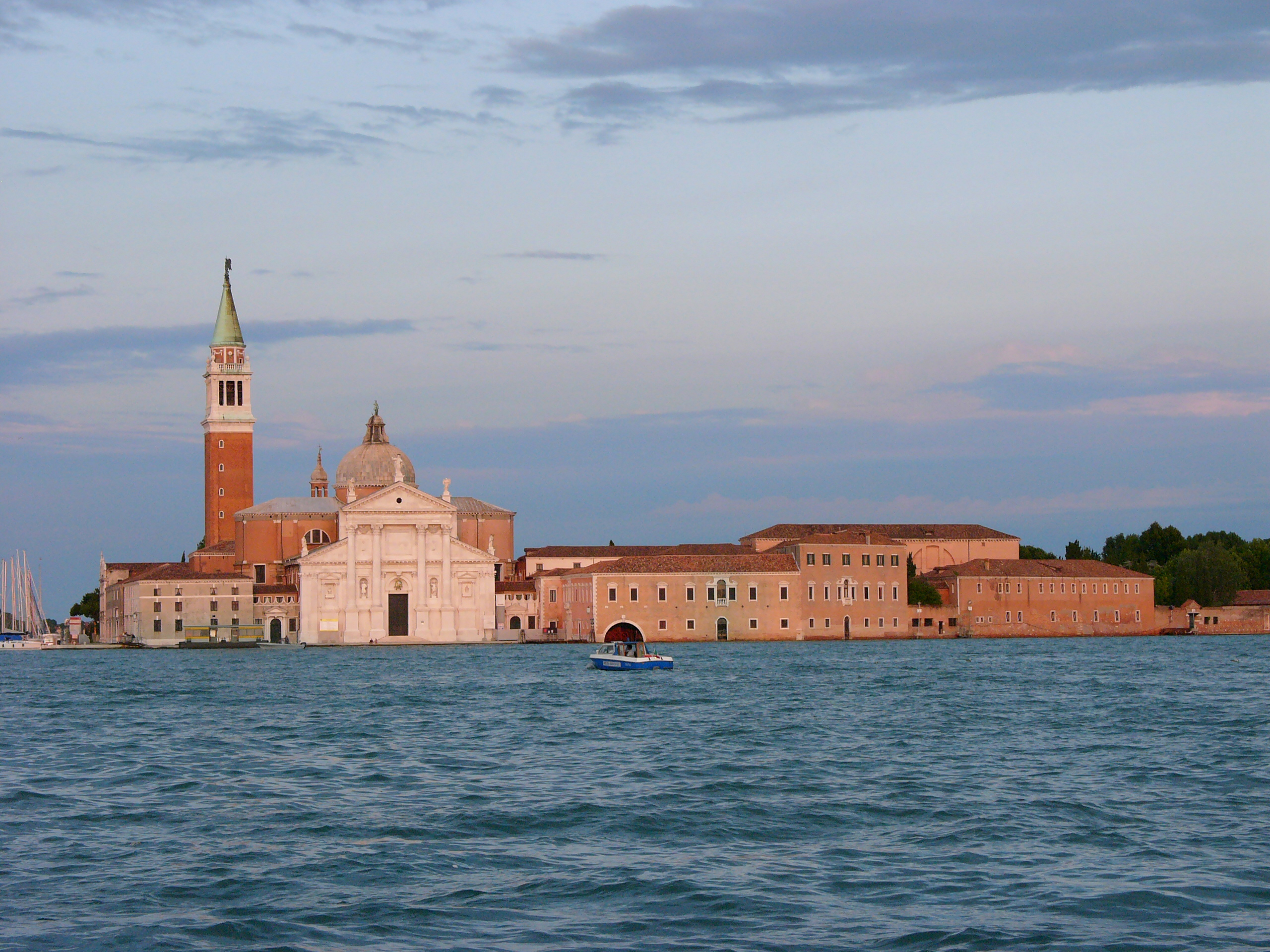 The San Giorgio Maggiore in Venice.